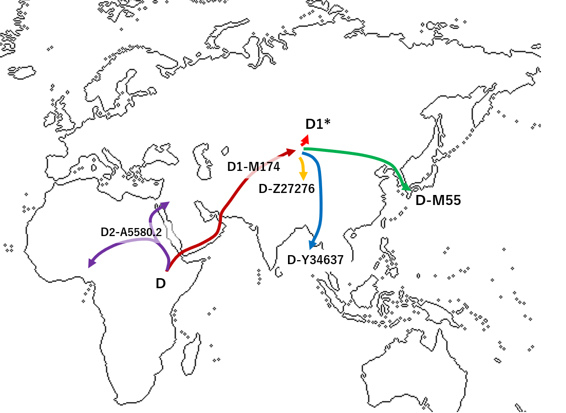 Migration map of Haplogroup D (Y-DNA)